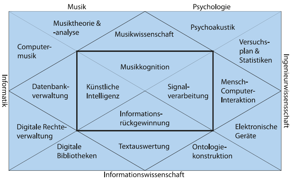 Scientific Disciplines collaborationg to Music Information Retrieval